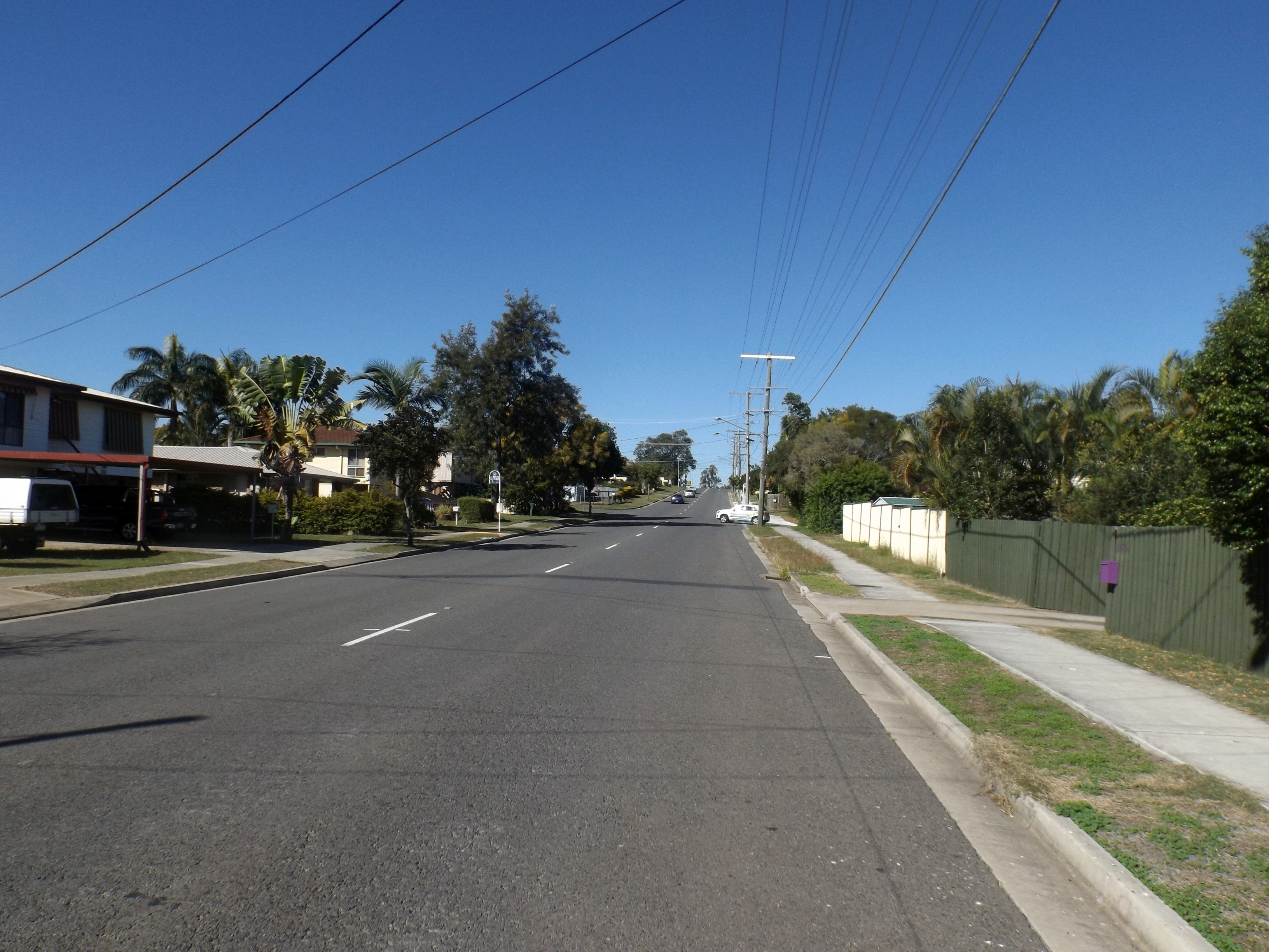 Photo of Ripley Road at Flinders View, City of Ipswich, Queensland, Australia.